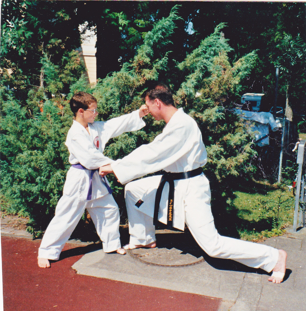 Pat McKay with fun at Karate-Do